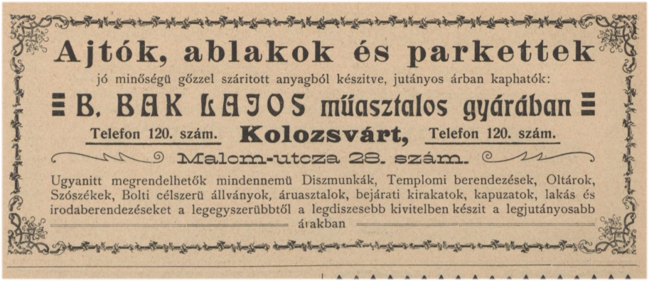 Advertisement of Lajos B. Bak, cabinet-maker in Kolozsvár (today Cluj-Napoca)